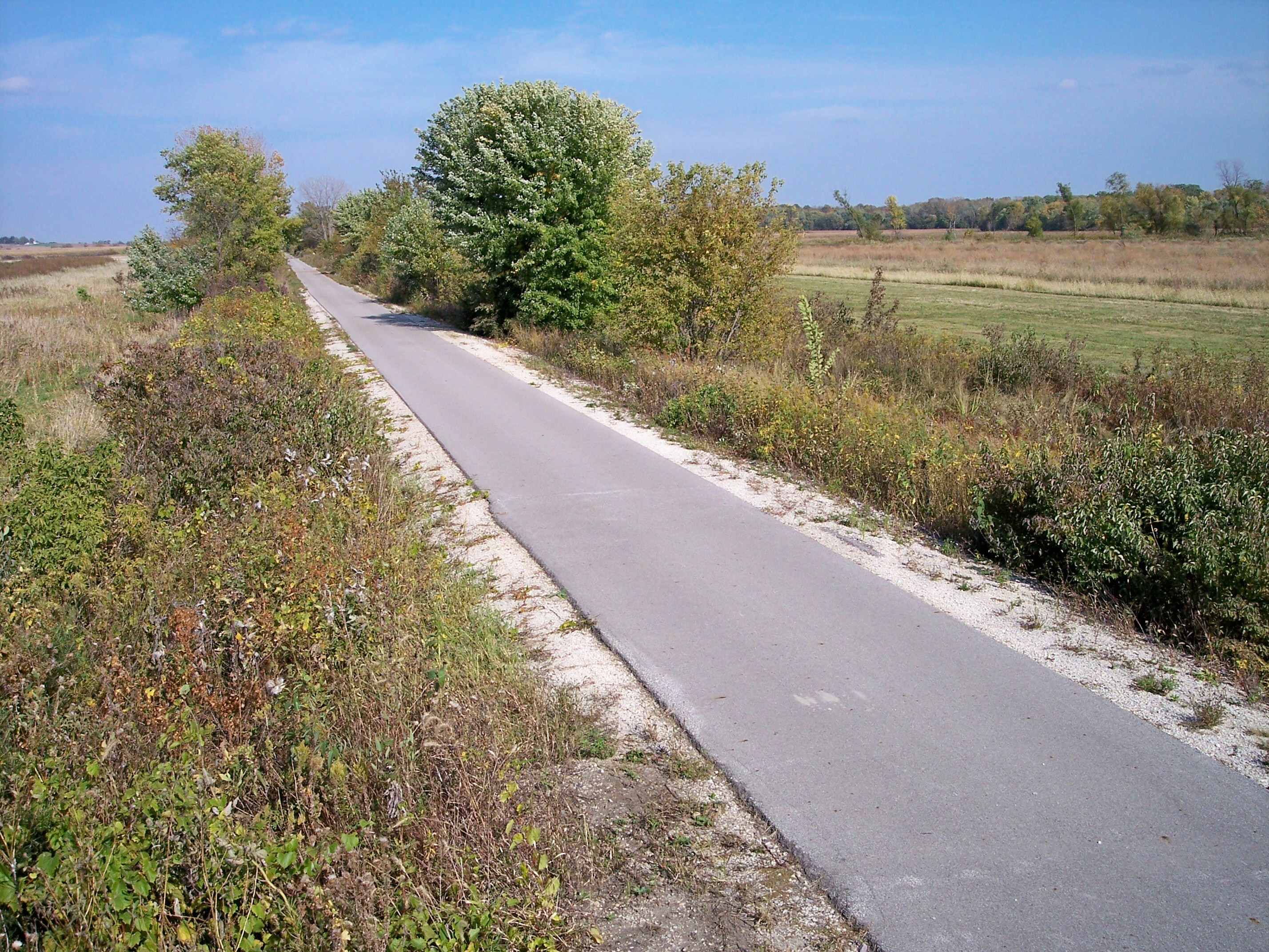 The Summerset Trail near Banner Lakes at Summerset State Park in northern Warren County, Iowa, southwest of Carlisle